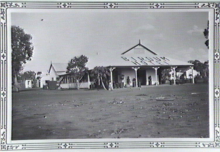 Birdum Hotel. Building was dismantled and trucked to Larrimah in 1952.